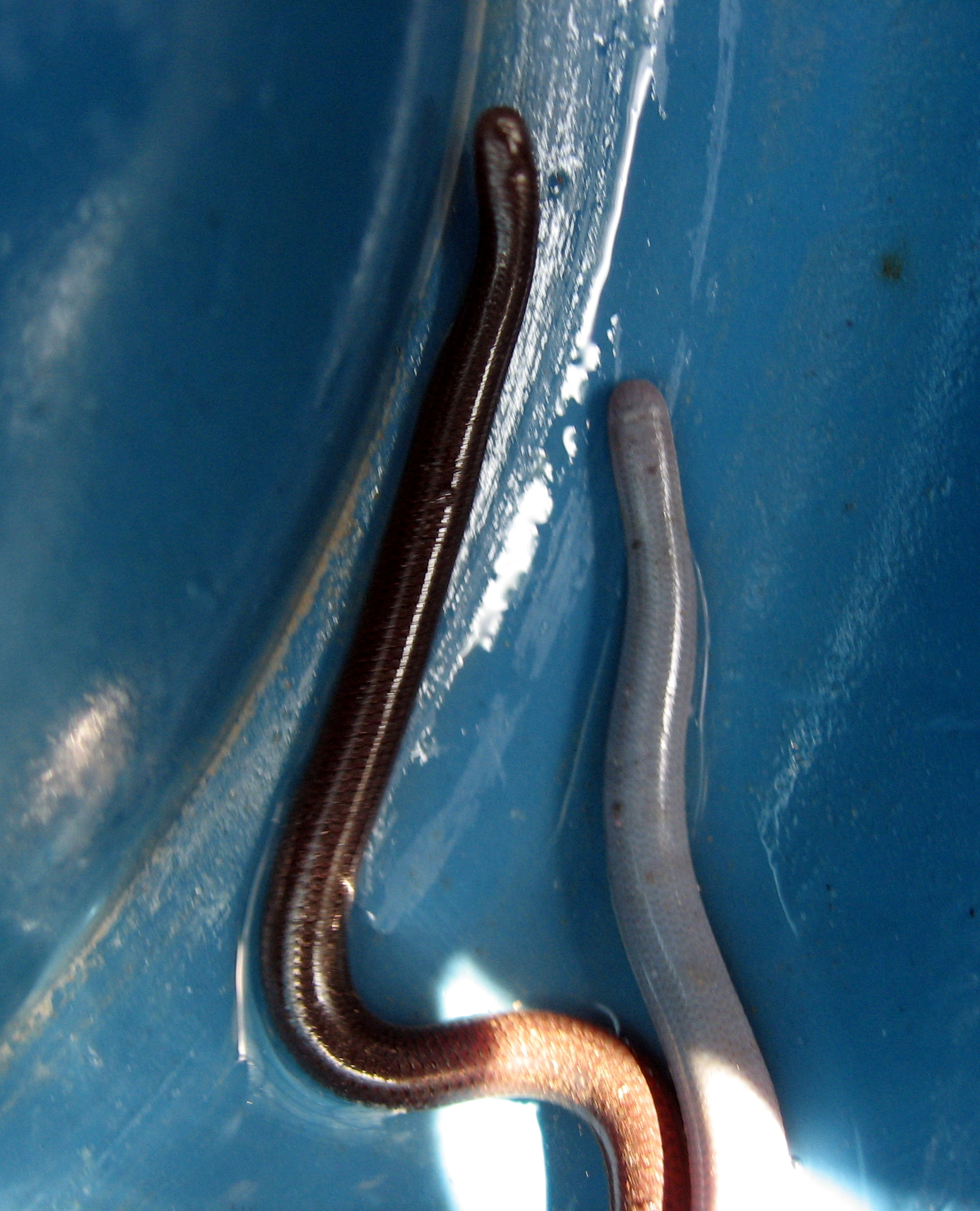 Two snakes of different colours. I found them both together, found at night time, usually under pots and logs, they eat little bugs such as ants, termites and larva, found on the surface after a hot day, usually 11pm-3am